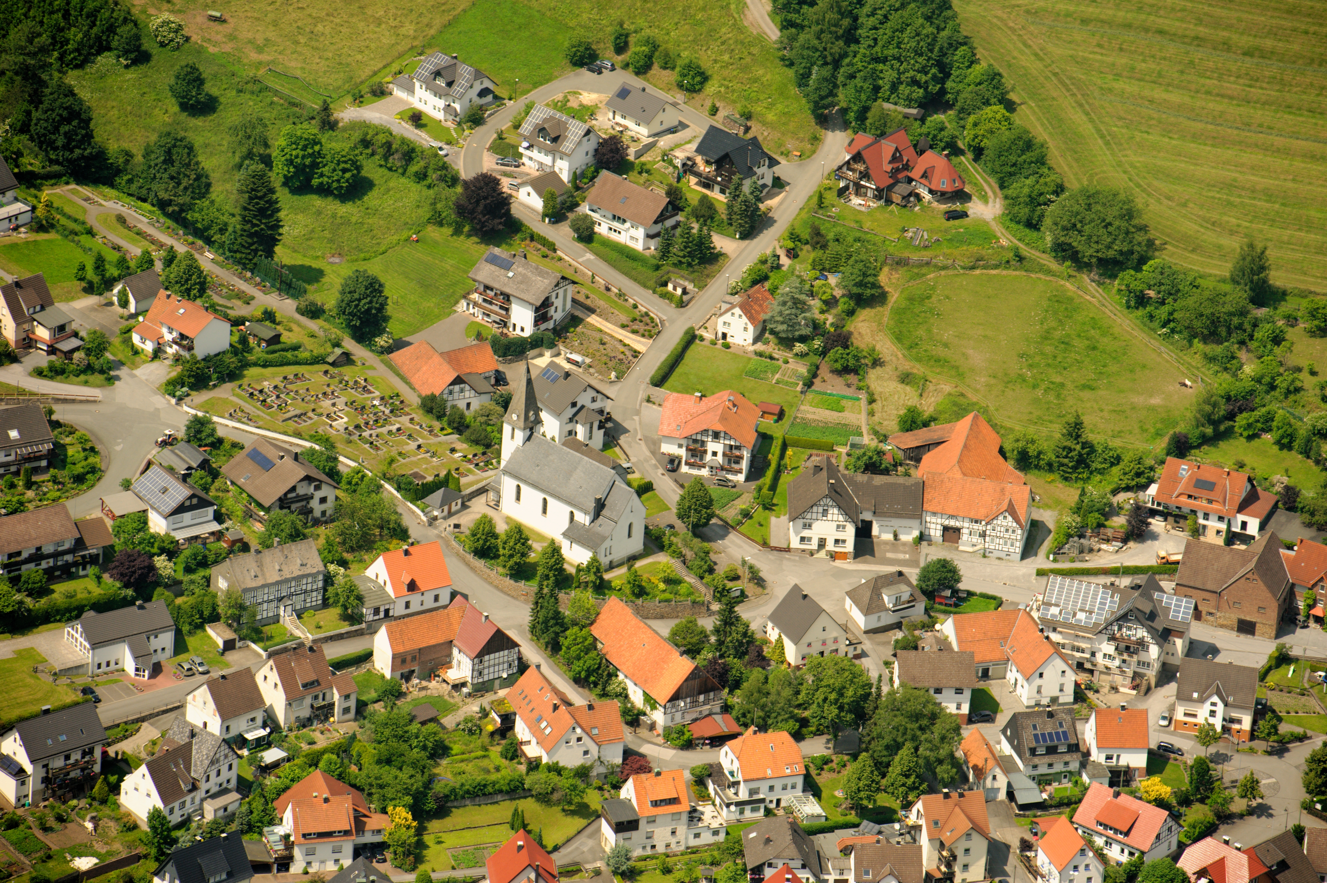 Fotoflug Sauerland-Ost, St. Vitus in Bontkirchen The making of this document was supported by the Community-Budget of Wikimedia Germany.